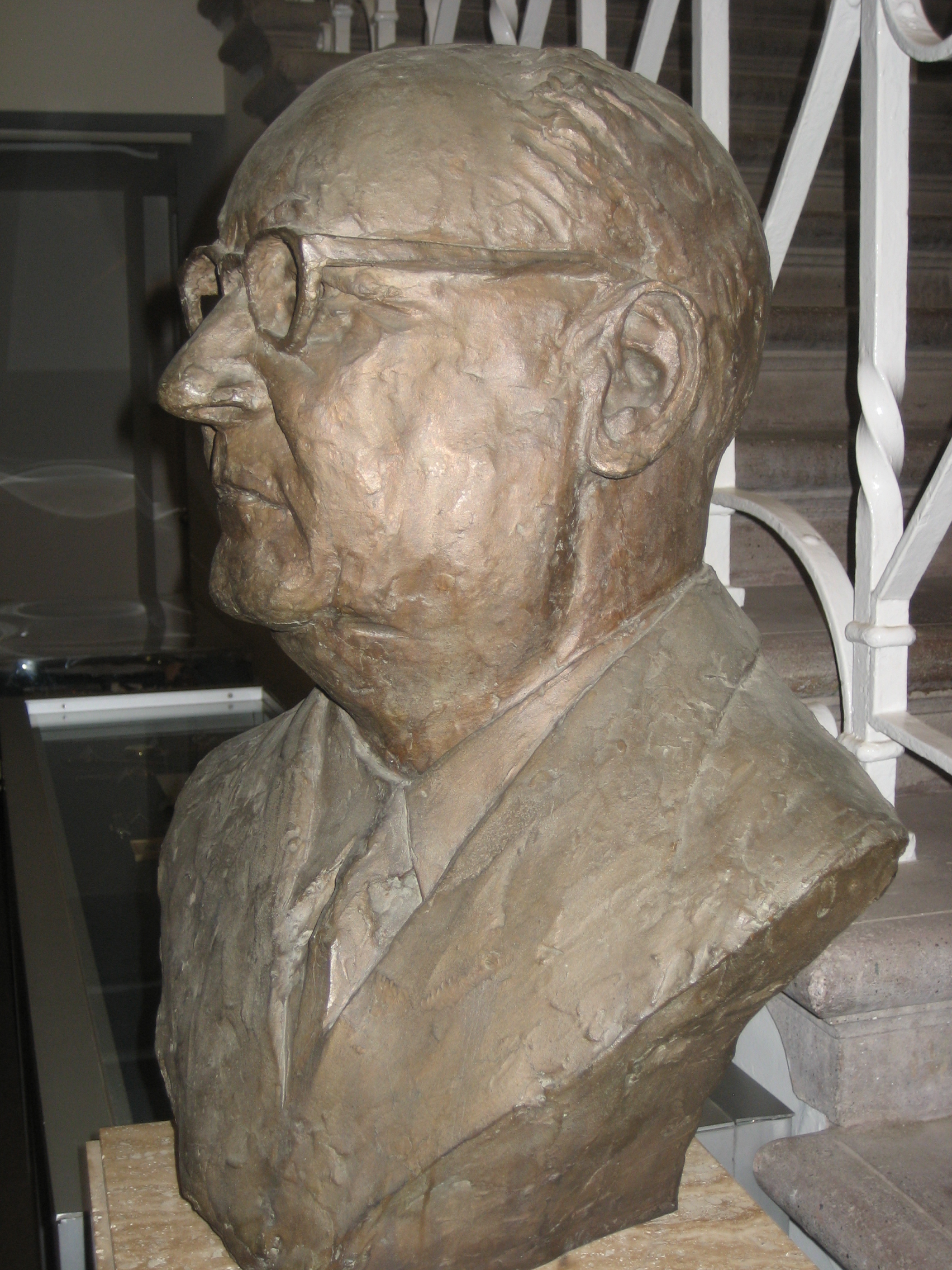 Bust of Daniël François Malan by Irmin Henkel, Stellenbosch Sasol Art Museum (Eben Donges Centre), Stellenbosch (South Africa)